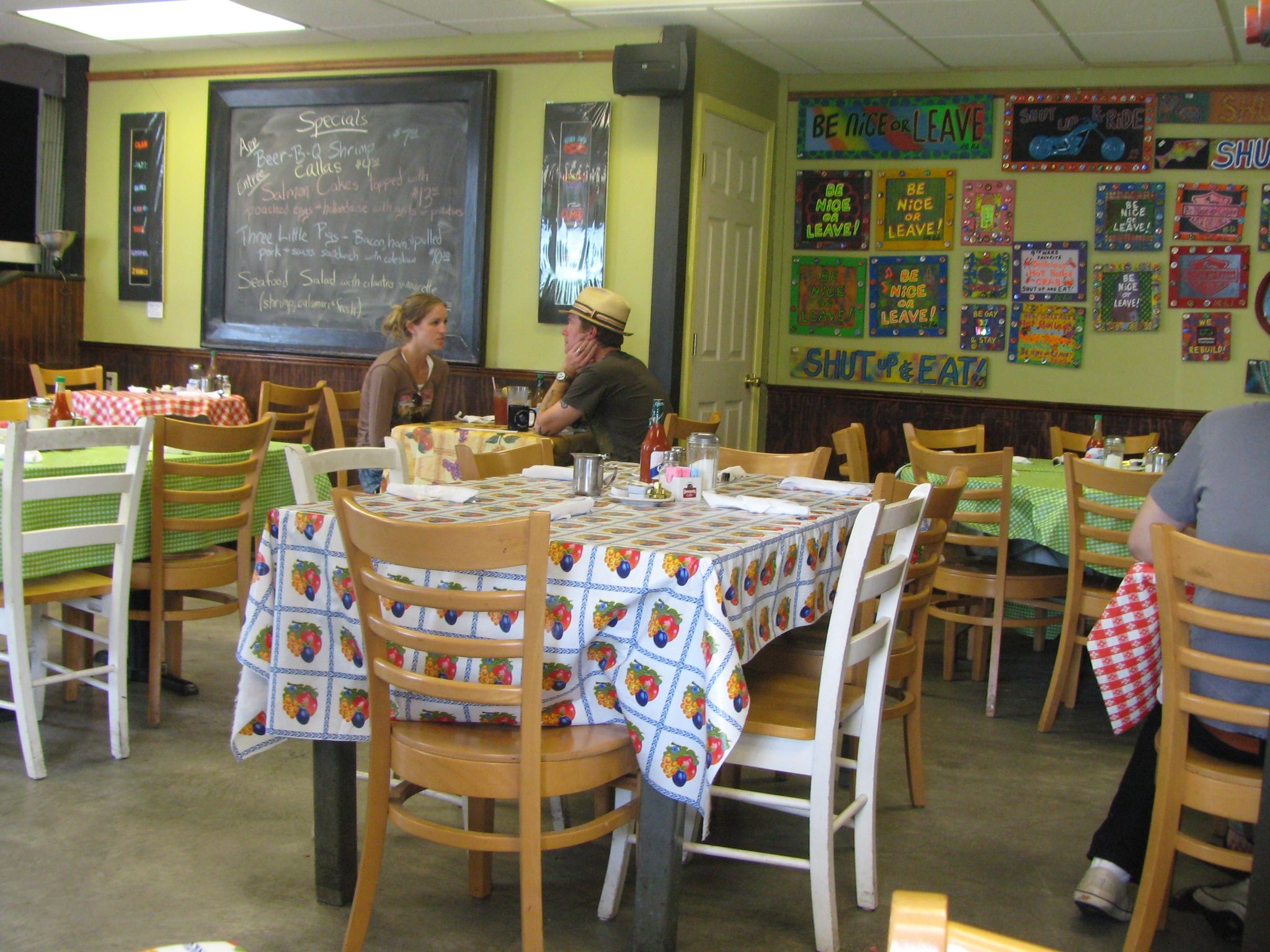 "Colorful Elizabeth's". Interior, Elizabeth's Restaurant, New Orleans.